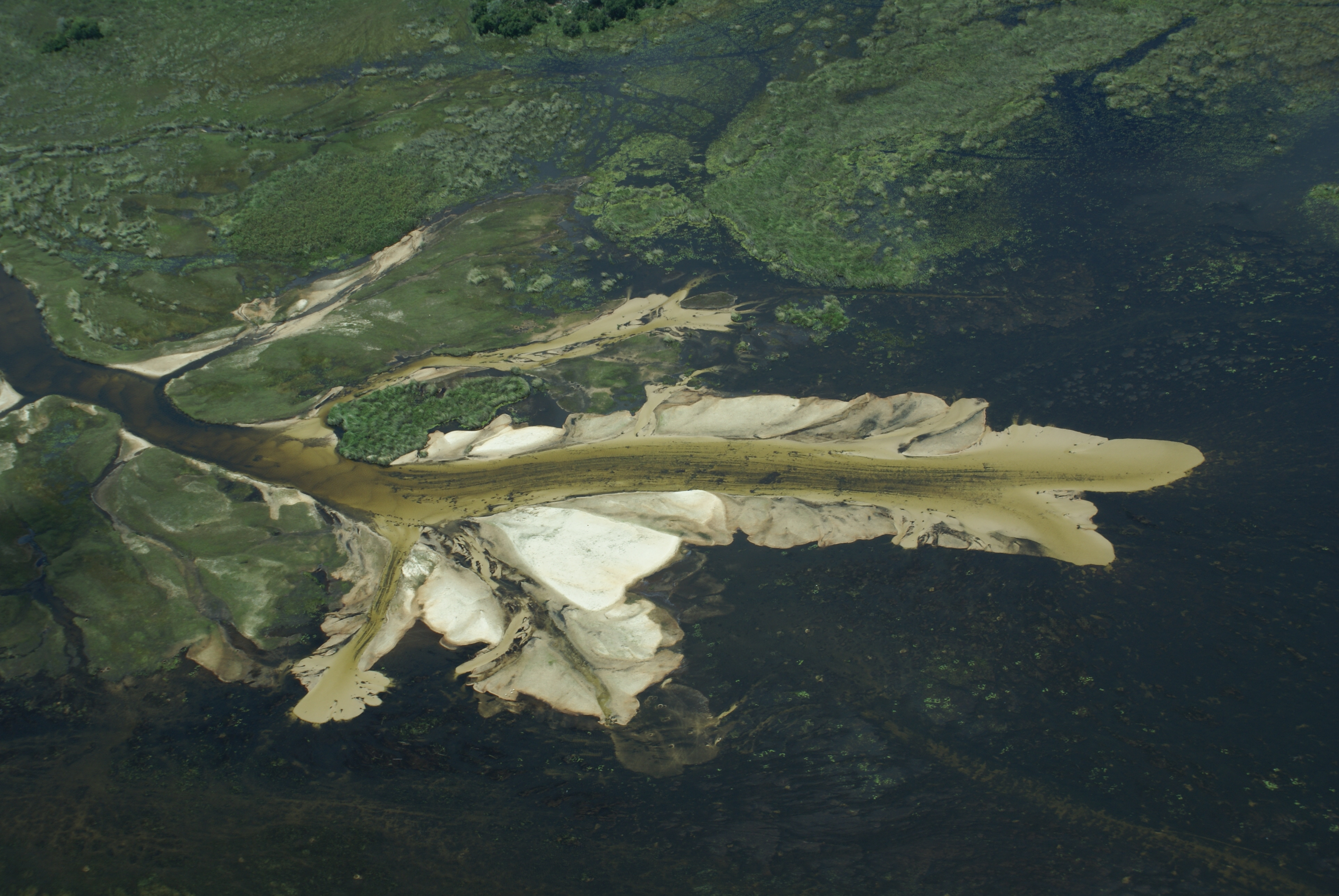 The spread of some silt from a South-bound water flow into the Okavango Delta in Botswana.